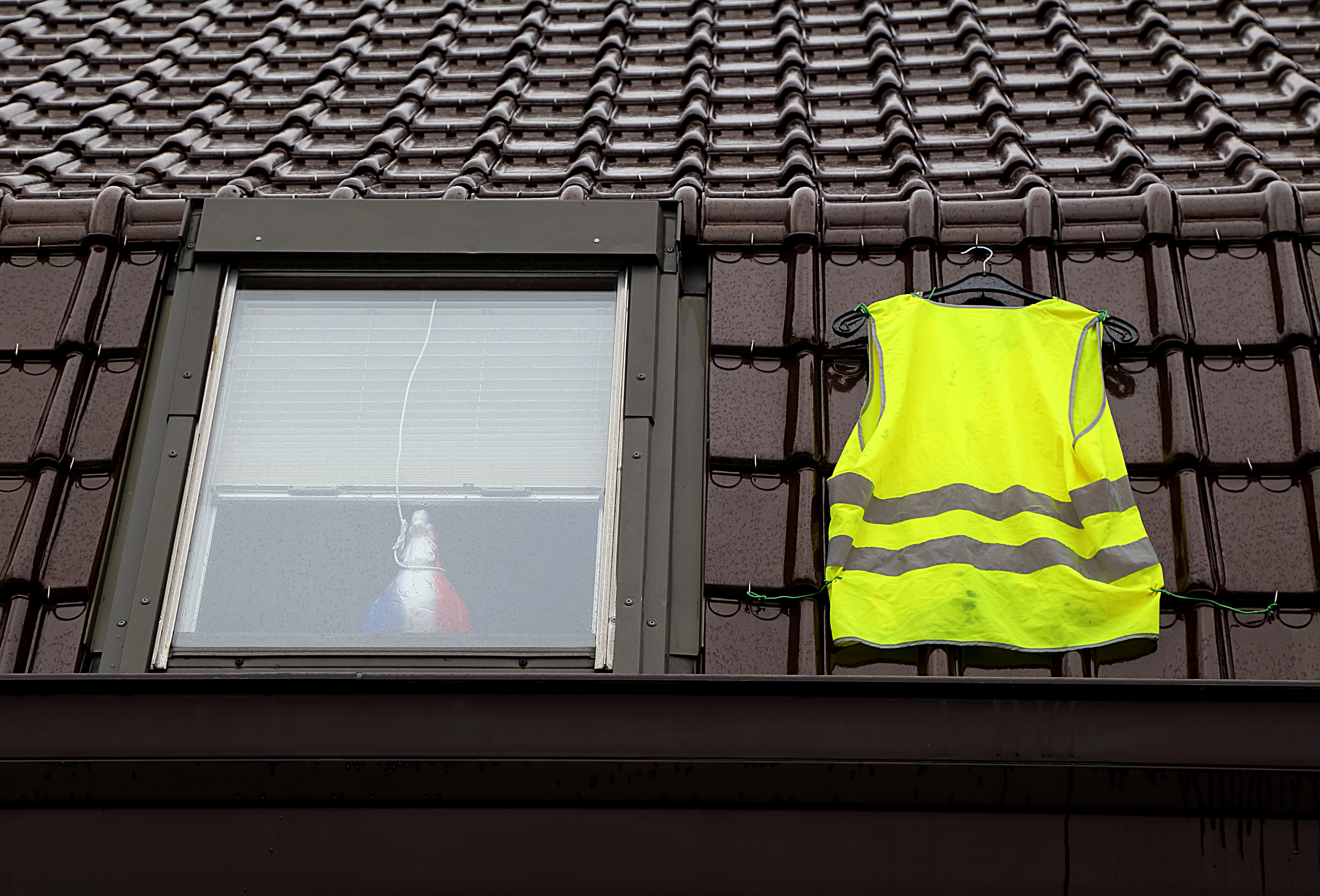 A yellow vest on a roof in Mouscron, Belgium (despite the French cock).